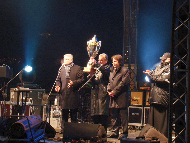 Poland Cup of Hockey 2010